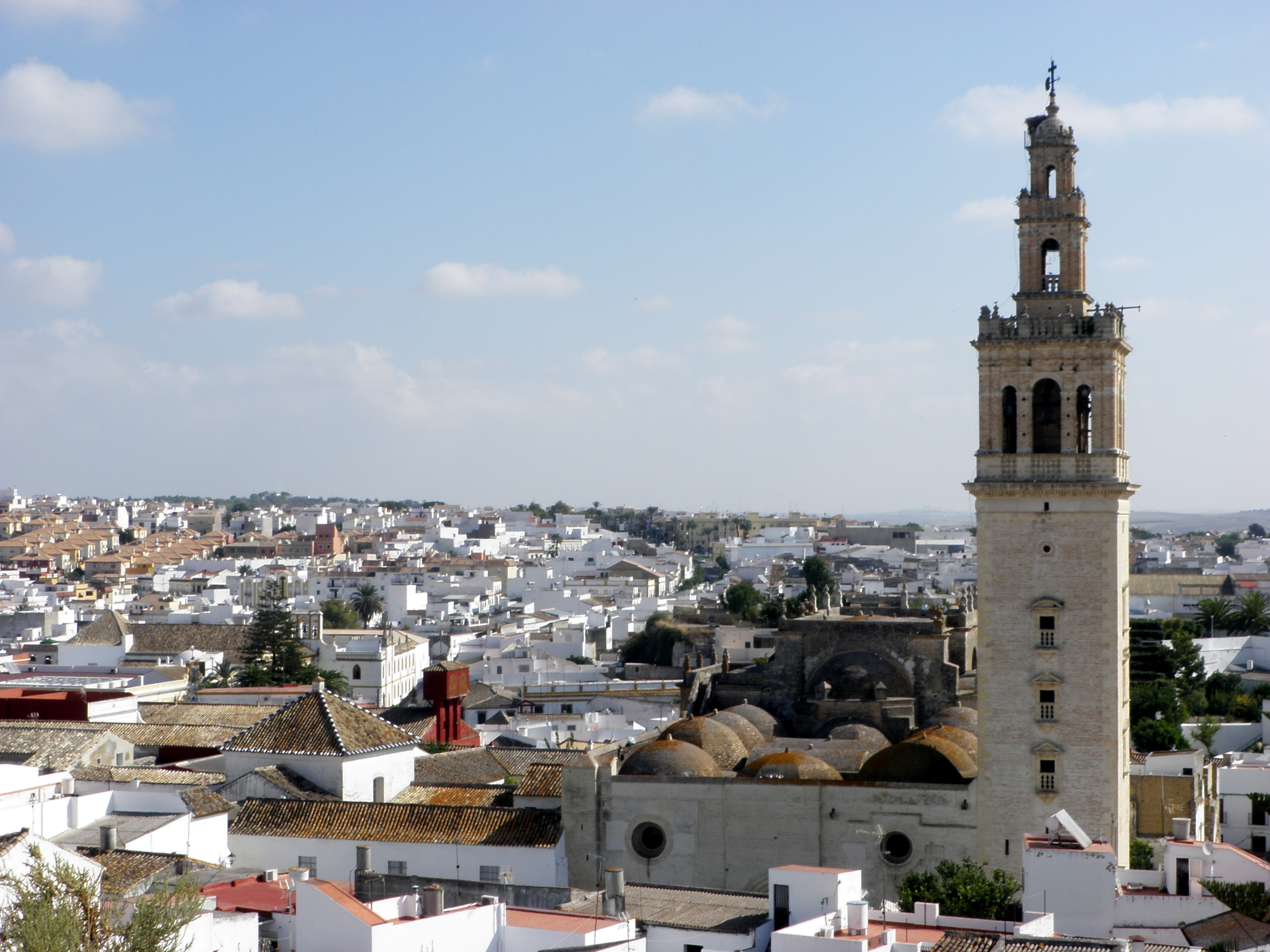 Church of Santa María de la Oliva, Lebrija, Spain.